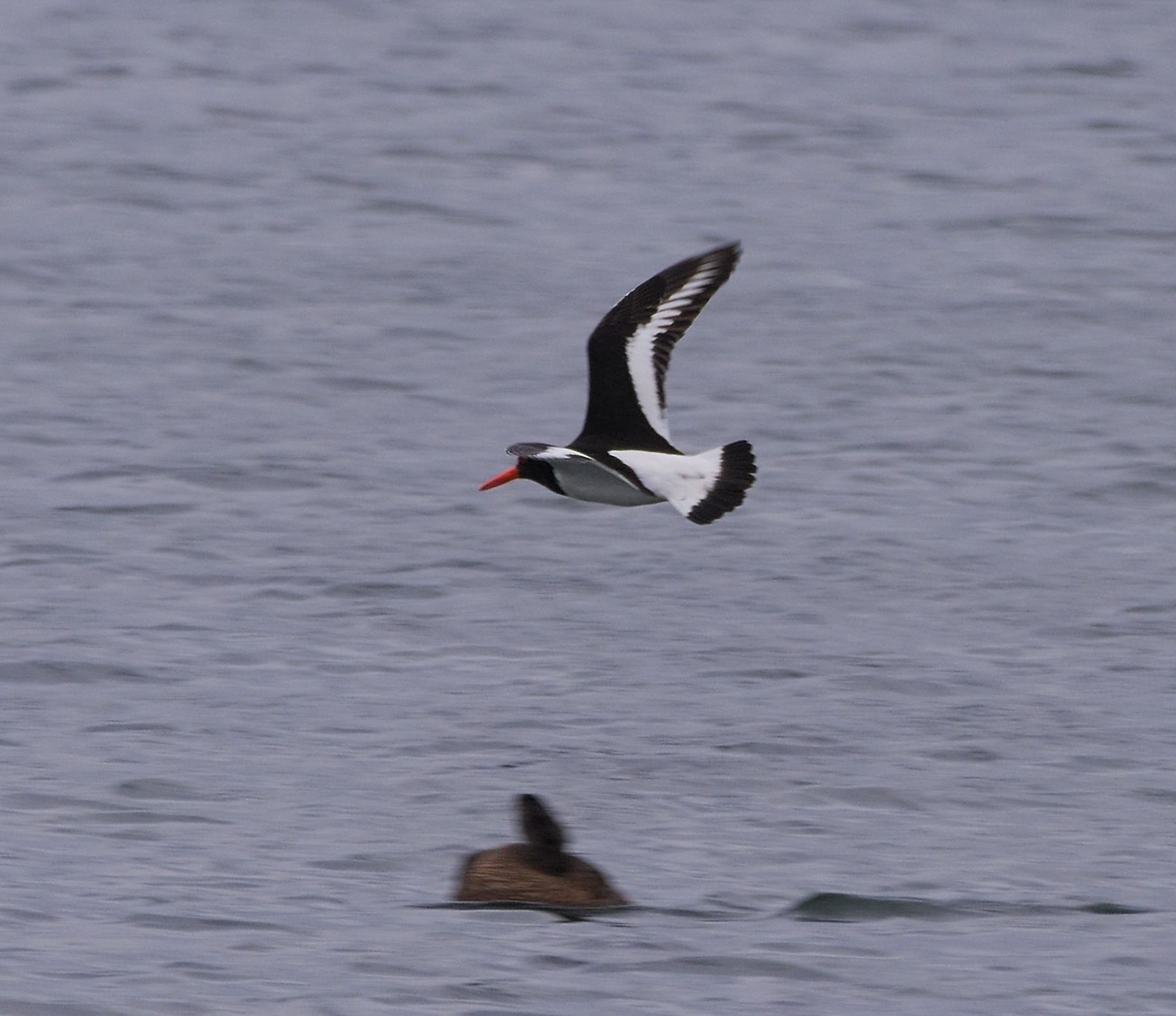 Eurasian oystercatcher - Haematopus ostralegus. Taken at the Baltic Sea in Strande, Schleswig-Holstein, Germany.